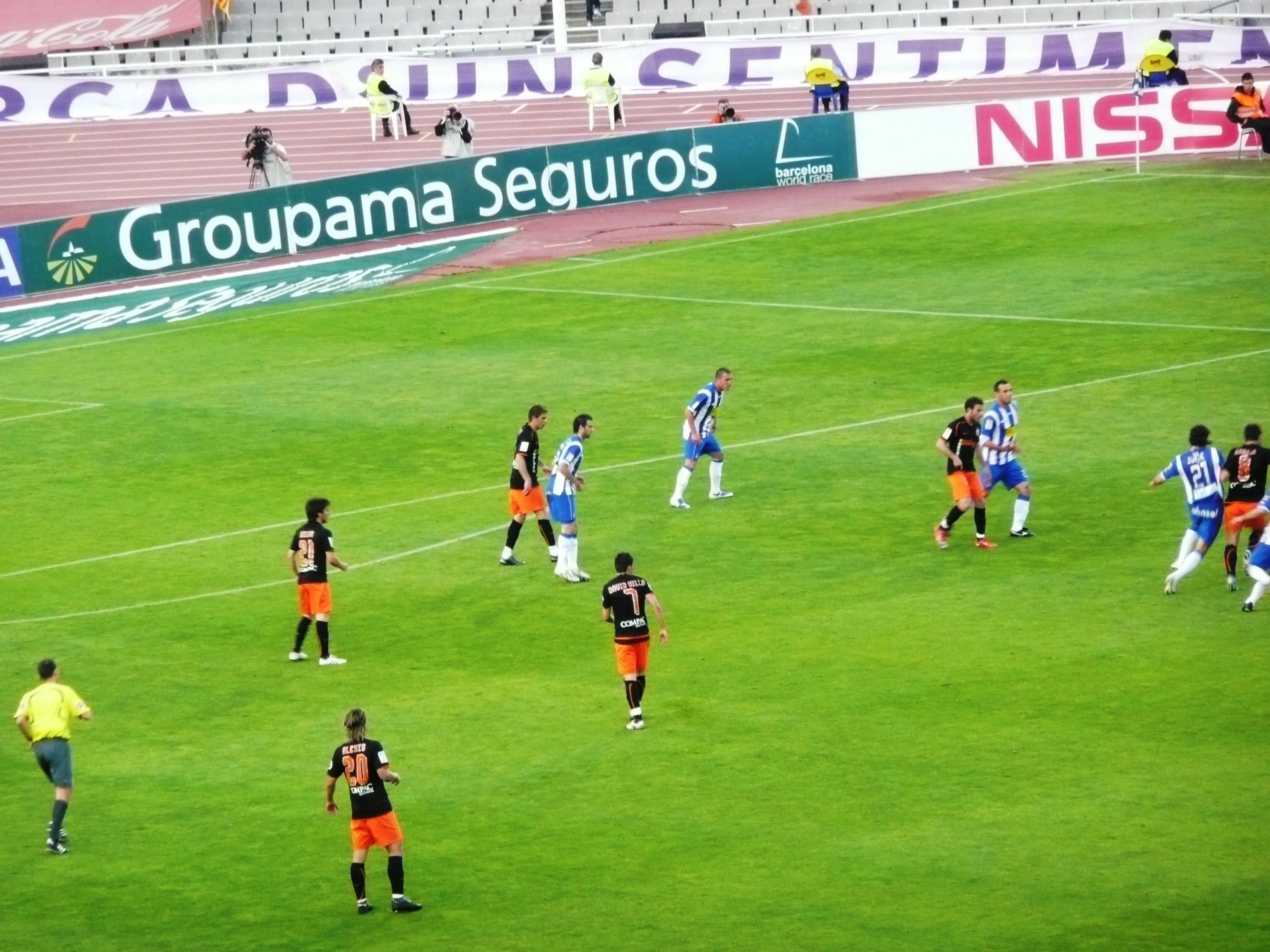 Daniel Jarque (№21, 3rd right): Espanyol - Valencia FC at Luís Companys Olympic Stadium (Barcelona) (03/05/2009)